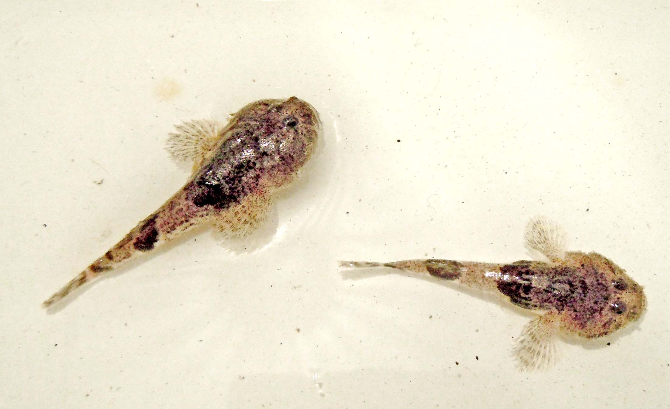 Granular pugolovka (Benthophilus granulosus) from the northern Caspian Sea